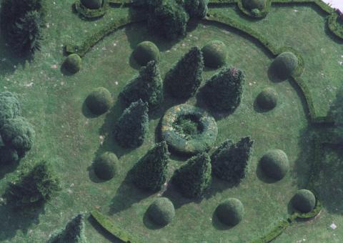 Topiary garden, in Somogyzsitfa, Hungary. aerial photography Véssey-kastély kertje